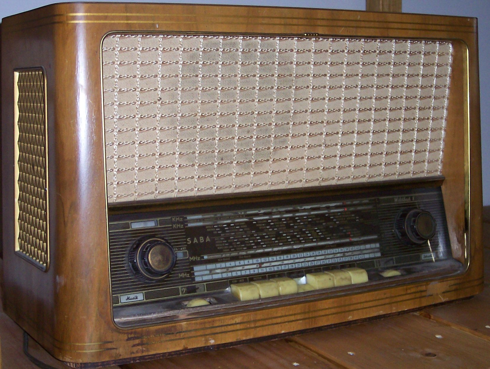 SABA "Wildbad 8" broadcast receiver from the 1950s - 7-tube superhet, 1957-58